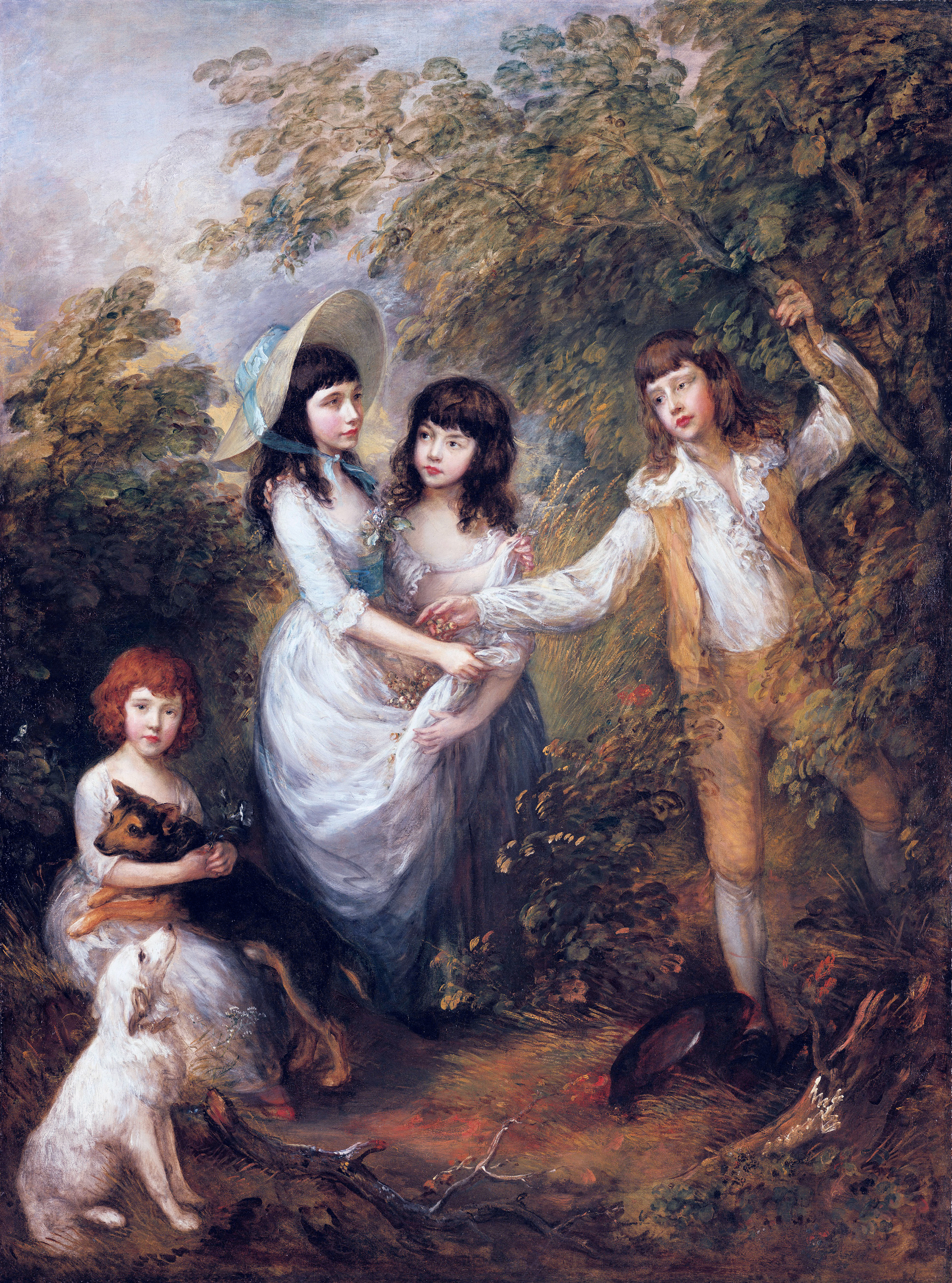 The Marsham Children (Charles (1777-1845), Frances (1778-1868), Harriot (1780-1825), Amelia Charlotte (1782-1863) and dog Fidele)